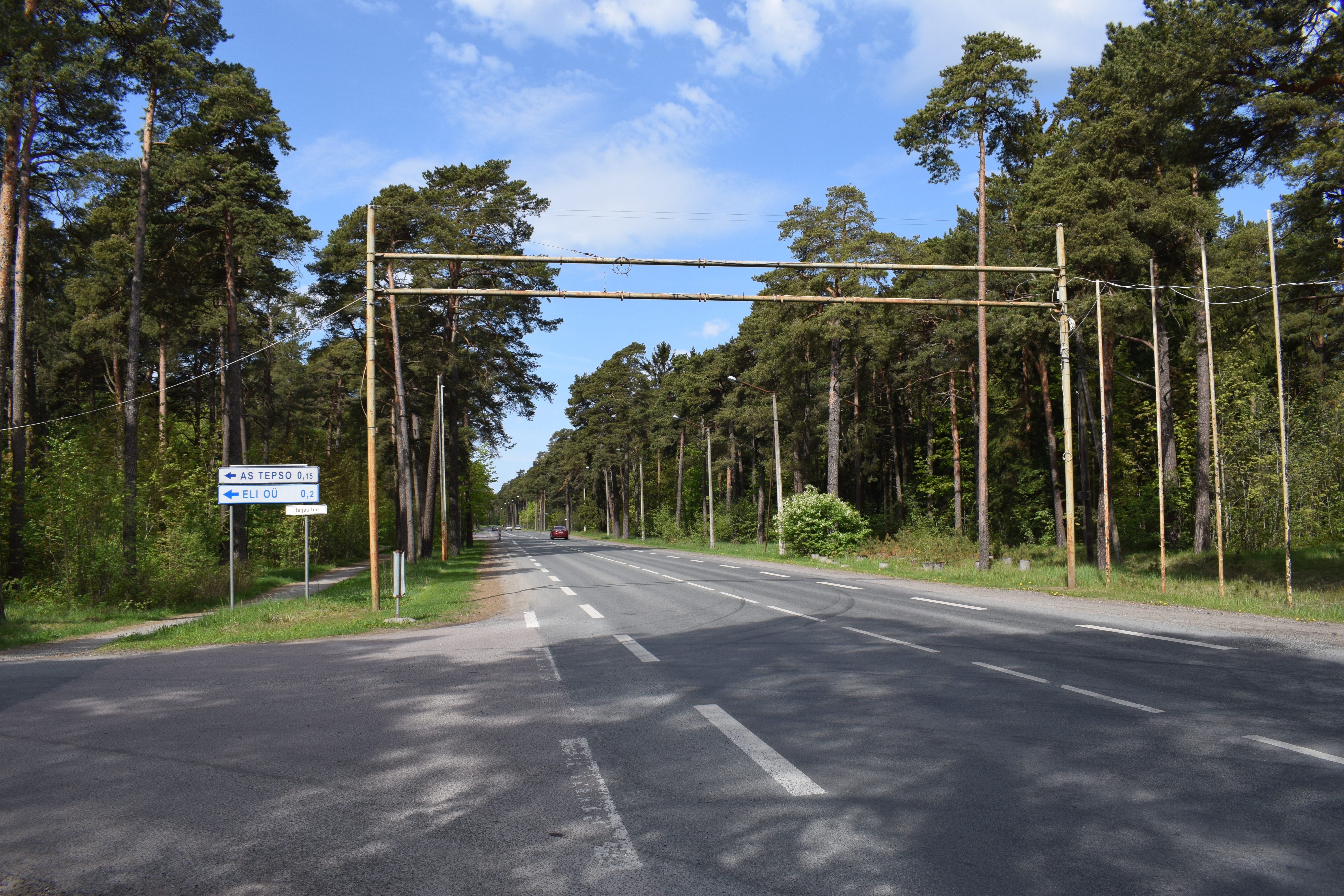 Kose street